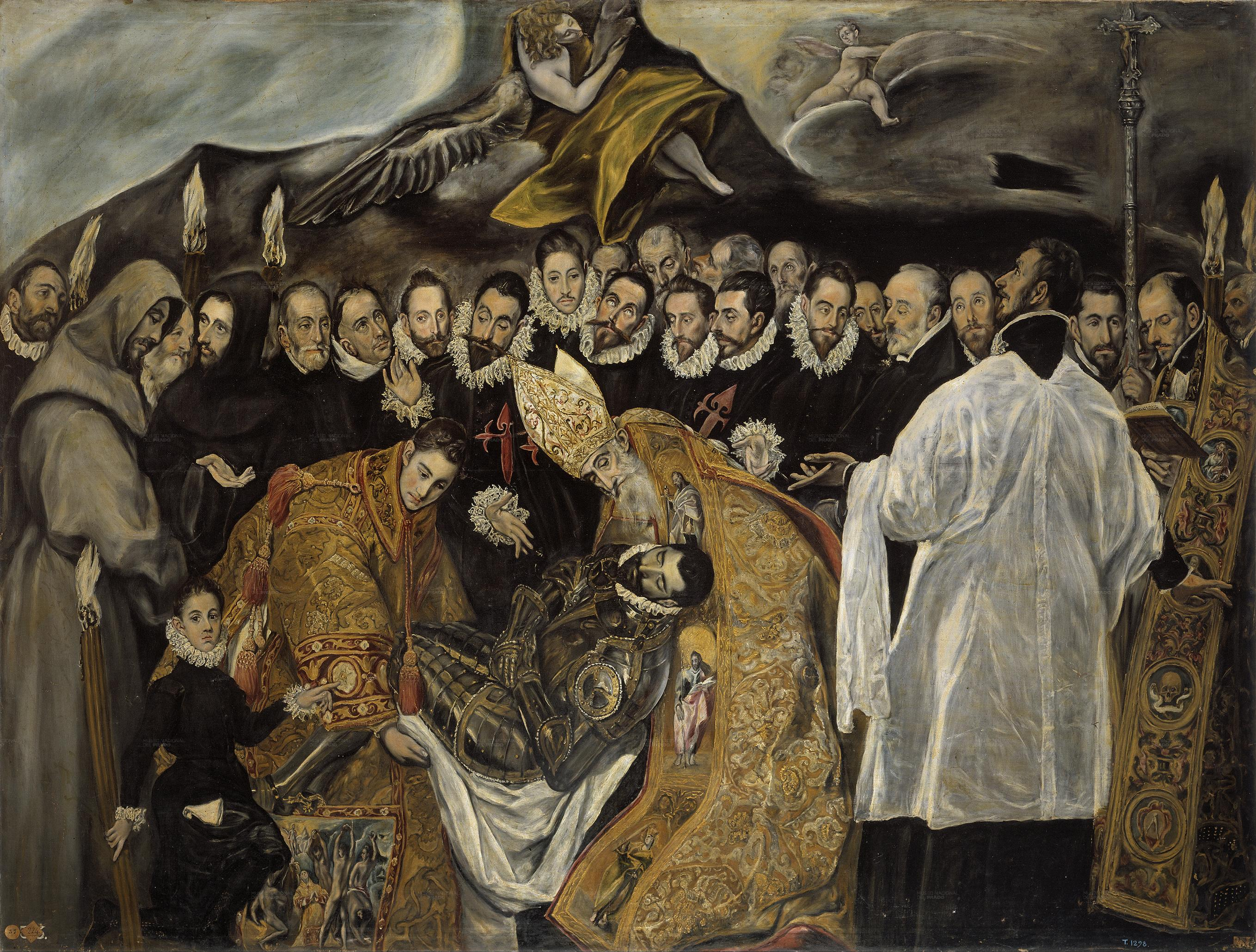 The Burial of the Count of Orgazlabel QS:Les,"Entierro del señor de Orgaz" label QS:Lfr,"L'Enterrement du comte d'Orgaz" label QS:Len,"The Burial of the Count of Orgaz"